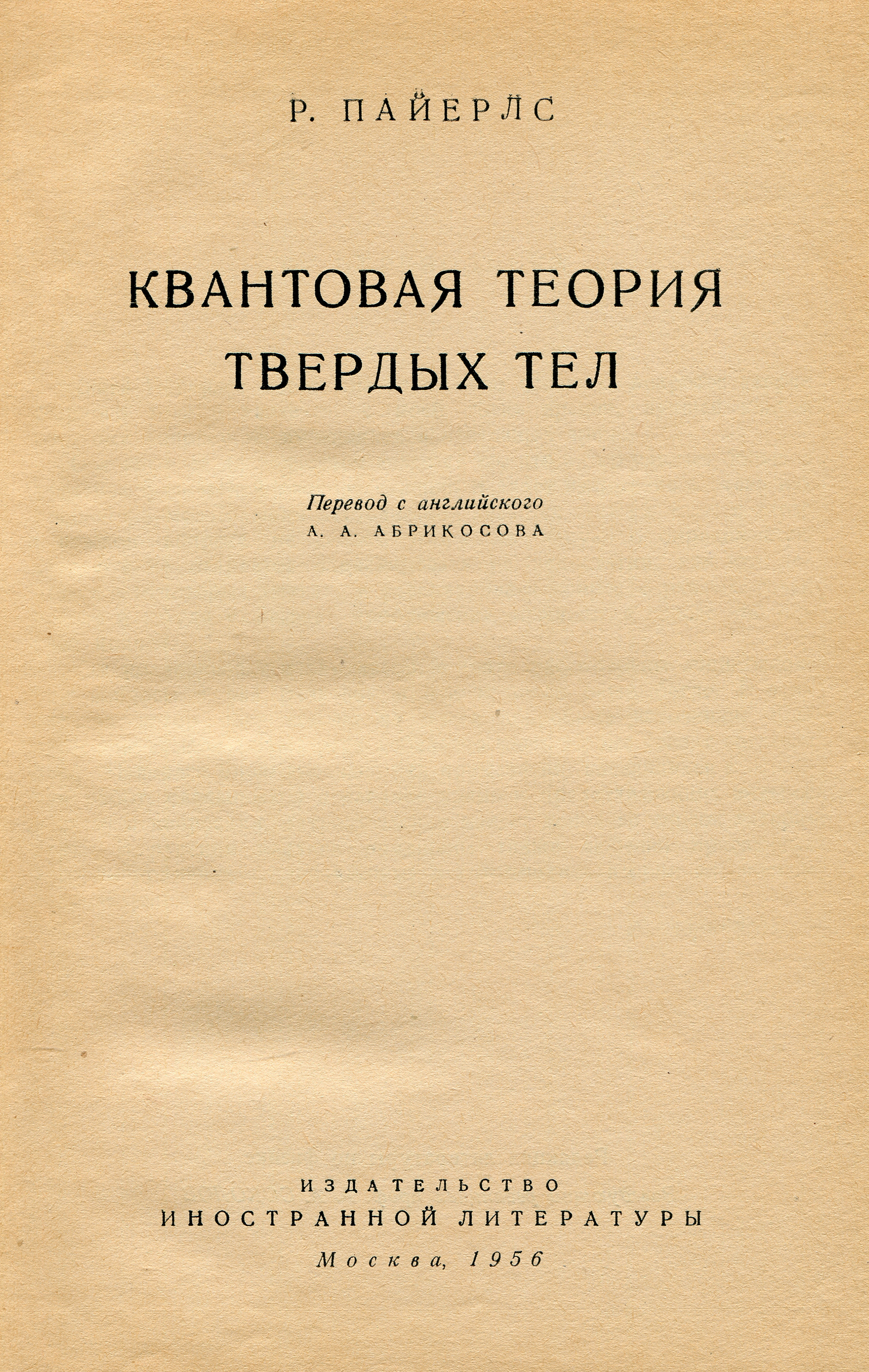 Rudolf Peierls. Book Quantum theory of solids.